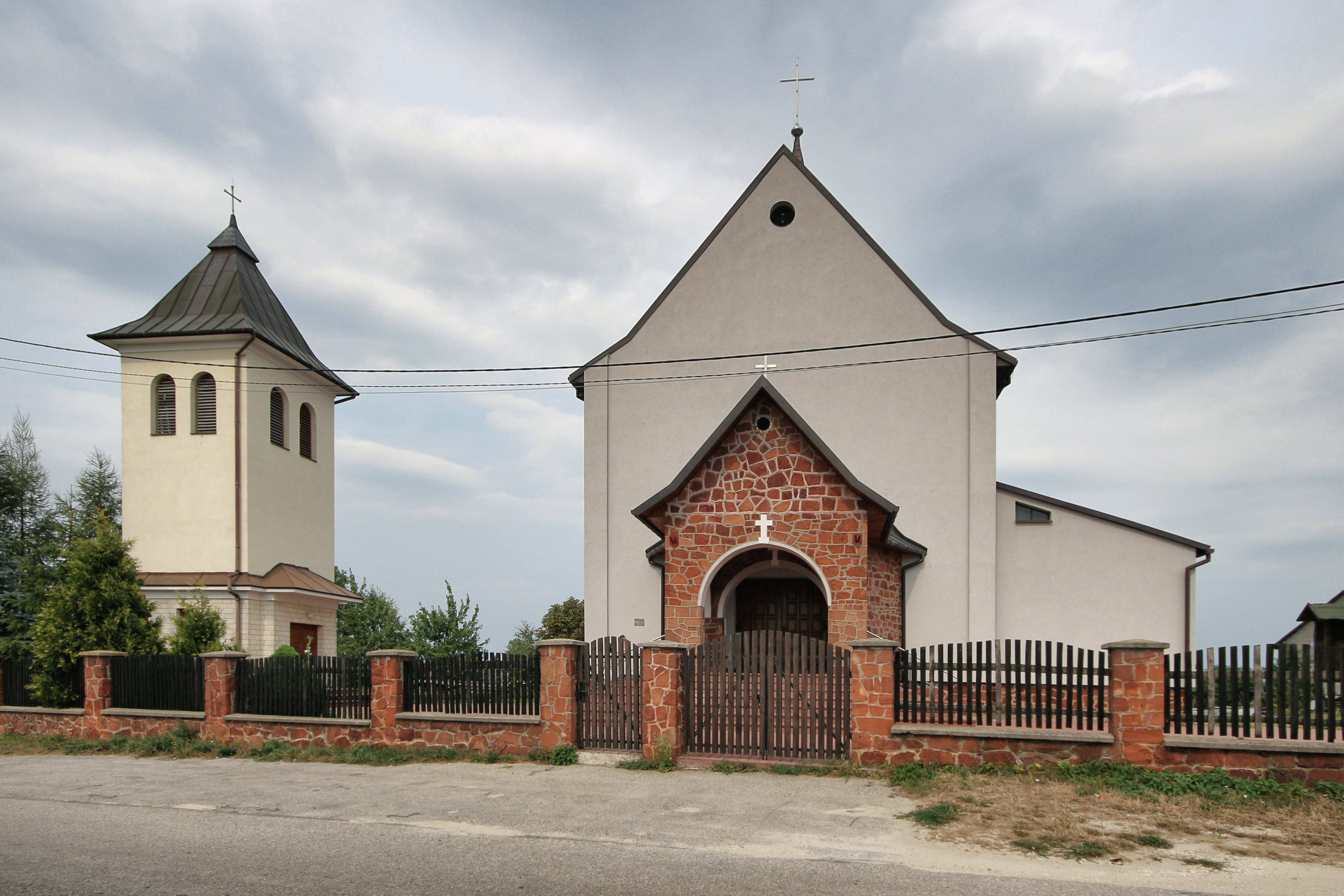 Good Shepherd church in Obice.